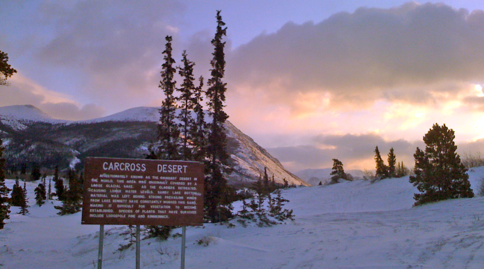 Yukon Territory's Carcross Desert, as seen in winter.